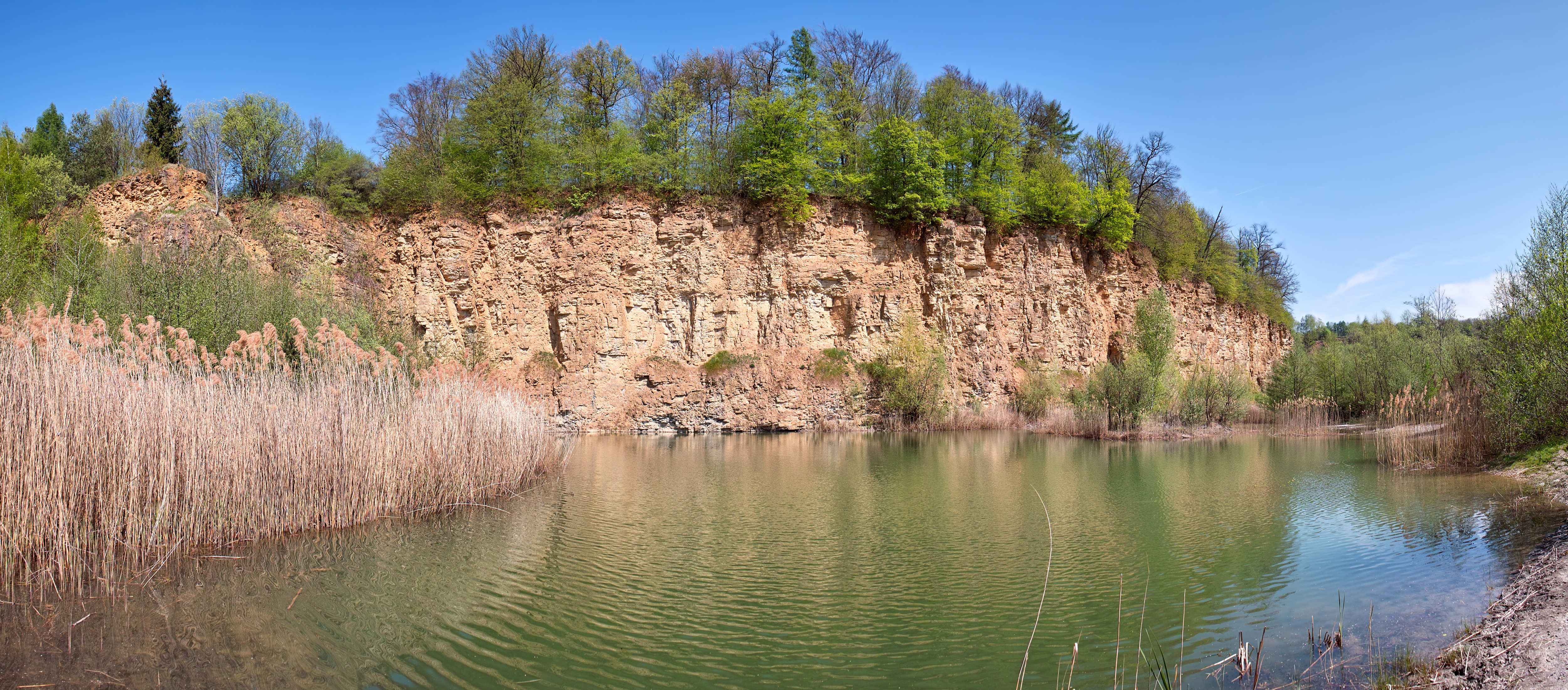 Panorama am Kallenberg Naturschutzgebiet bei Eschelbronn. Panorama stitched of 6 portrait format pictures.